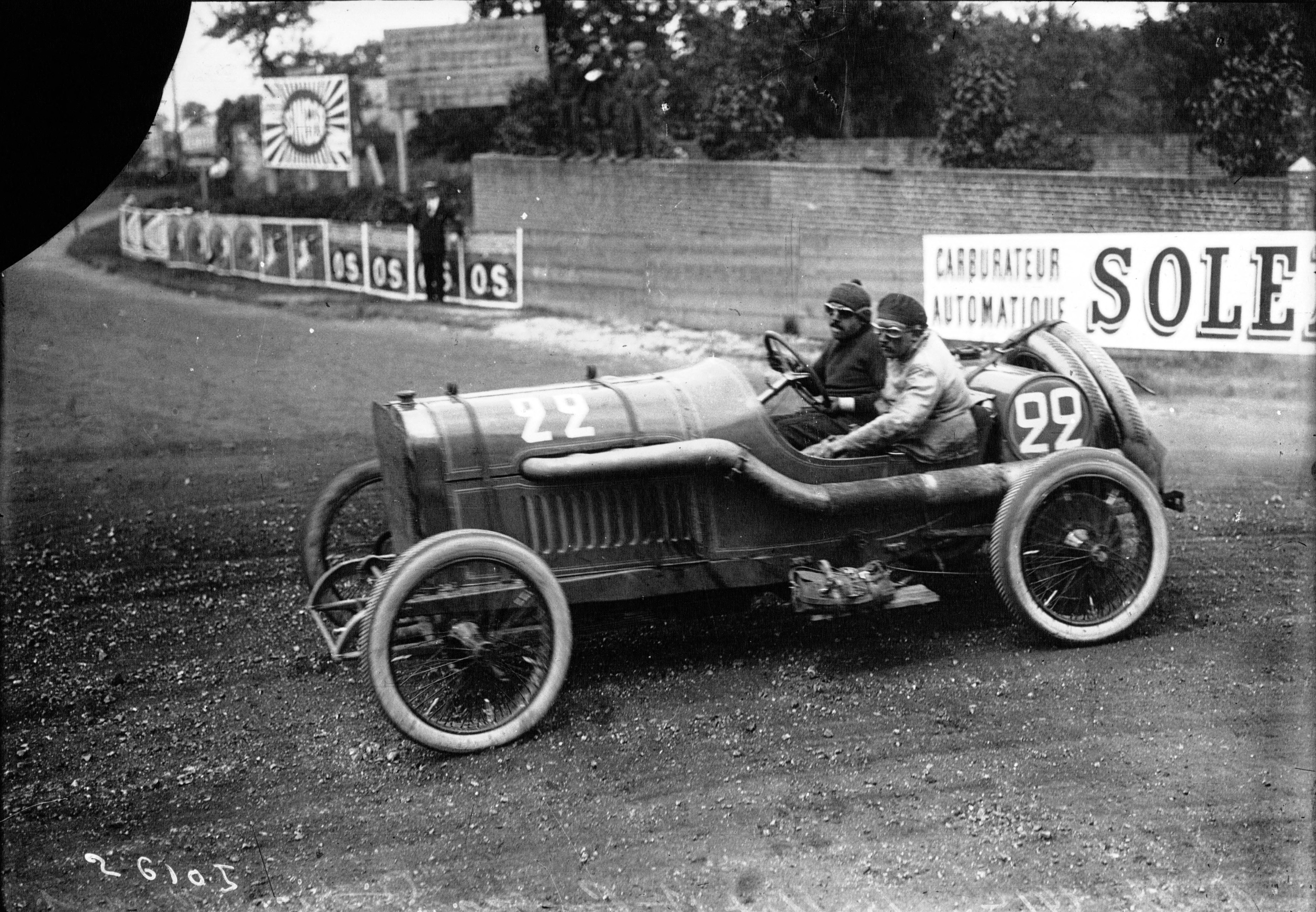 Georges Boillot in his Peugeot at the 1912 French Grand Prix at Dieppe.